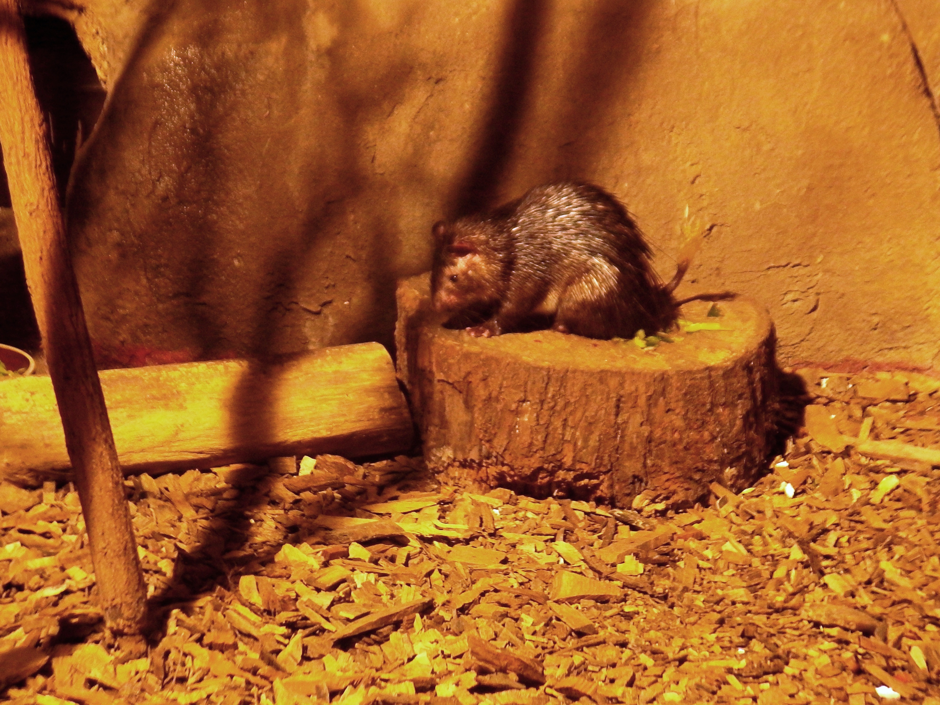 Zoo Prague, african brush-tailed porcupine.